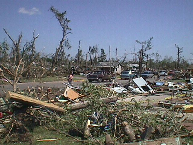 Damage from a tornado that hit Siren, Wisconsin on June 18, 2001.